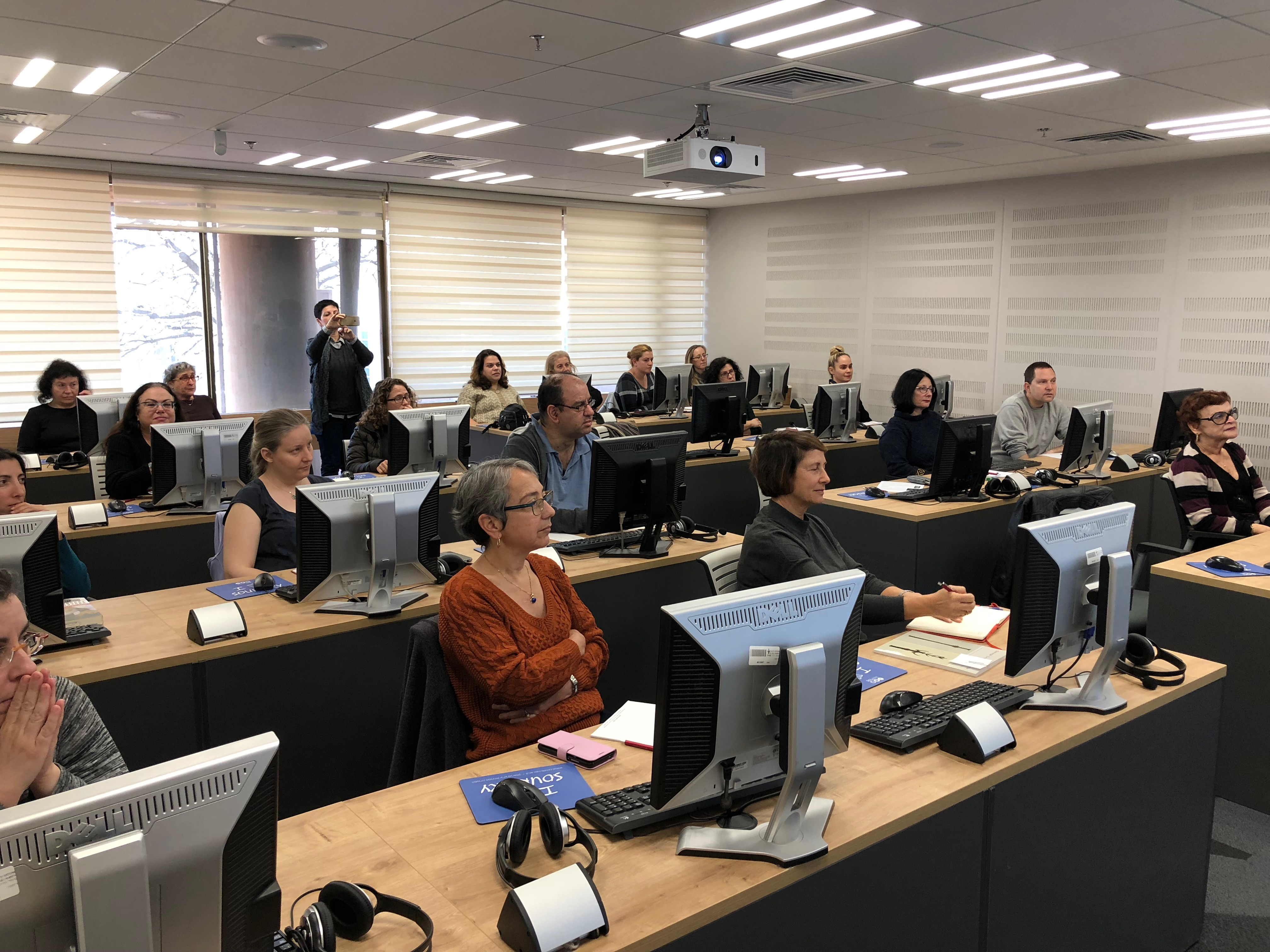 Photo taken in 1lib1ref workshop. January 2018, Tel Aviv University